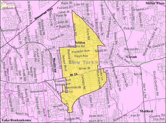 U.S. Census 2000 reference map for Selden